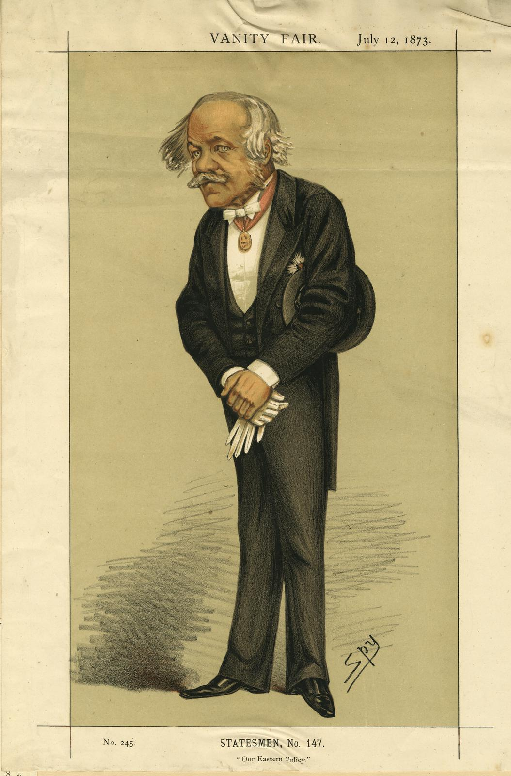 Portrait of Sir Henry Creswicke Rawlinson, full-length, slightly turned to the left, holding his gloves in his folded hands with his hat under one arm, dressed in white tie with a dark waistcoat, a medal on a ribbon about his neck and the star of an order pinned to his breast, with a short descriptive article pasted to the same sheet, illustration to "Vanity Fair" (1873) Chromolithograph